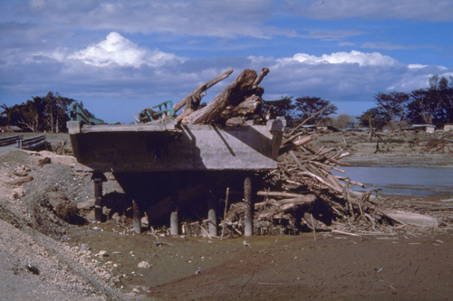 A bridge in the Solomon Islands damaged by the passing of Cyclone Namu in 1986.